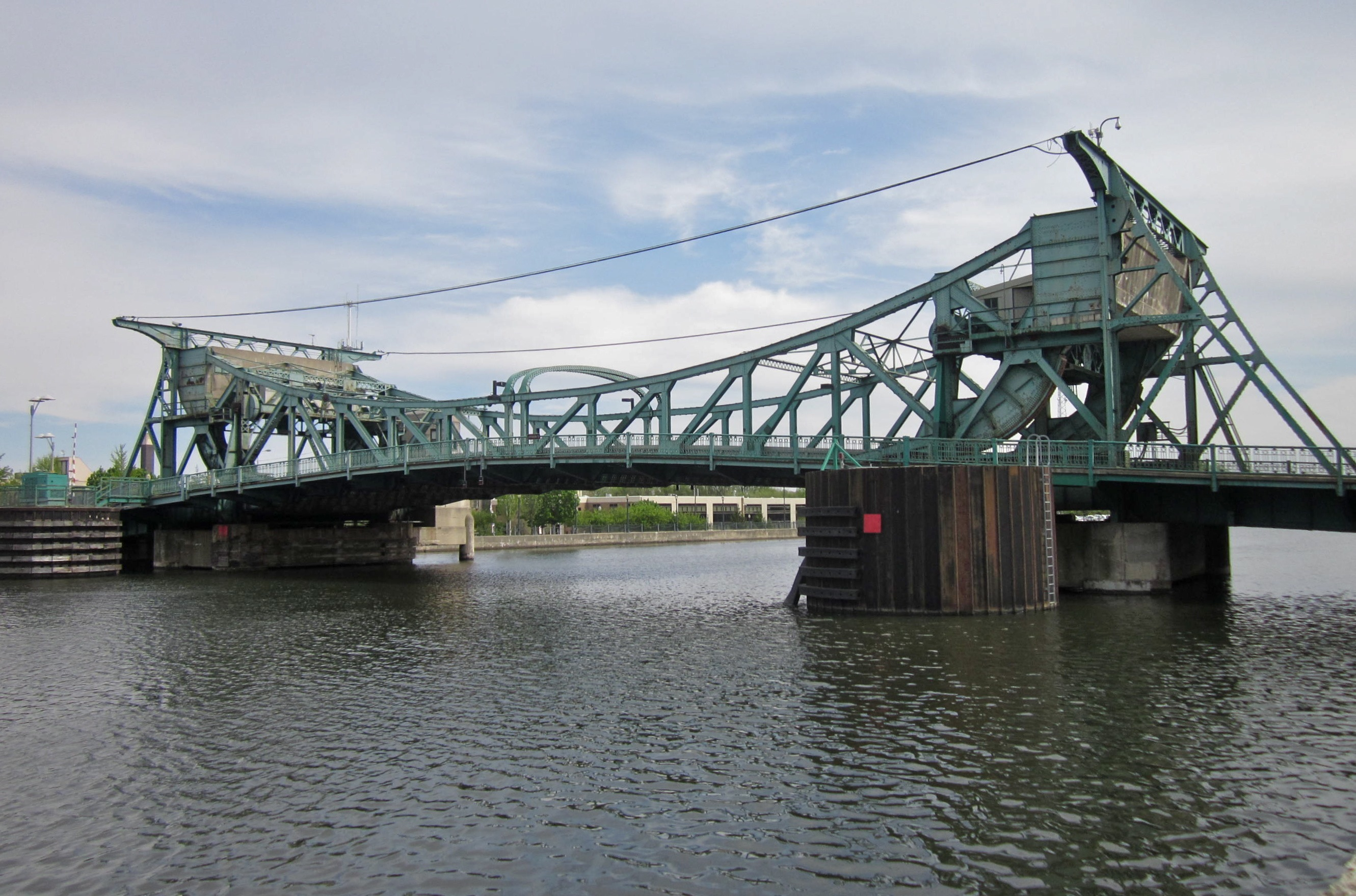 The north side of the Jefferson Street Bridge, in Joliet, Illinois, viewed from the west riverbank. It carries eastbound US Route 30. It is one of four Scherzer Rolling Lift bascule bridges in Joliet, all of which span the Des Plaines River.